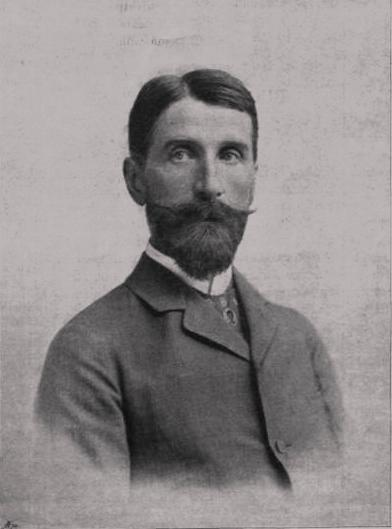 Portrait of Gyula Forster